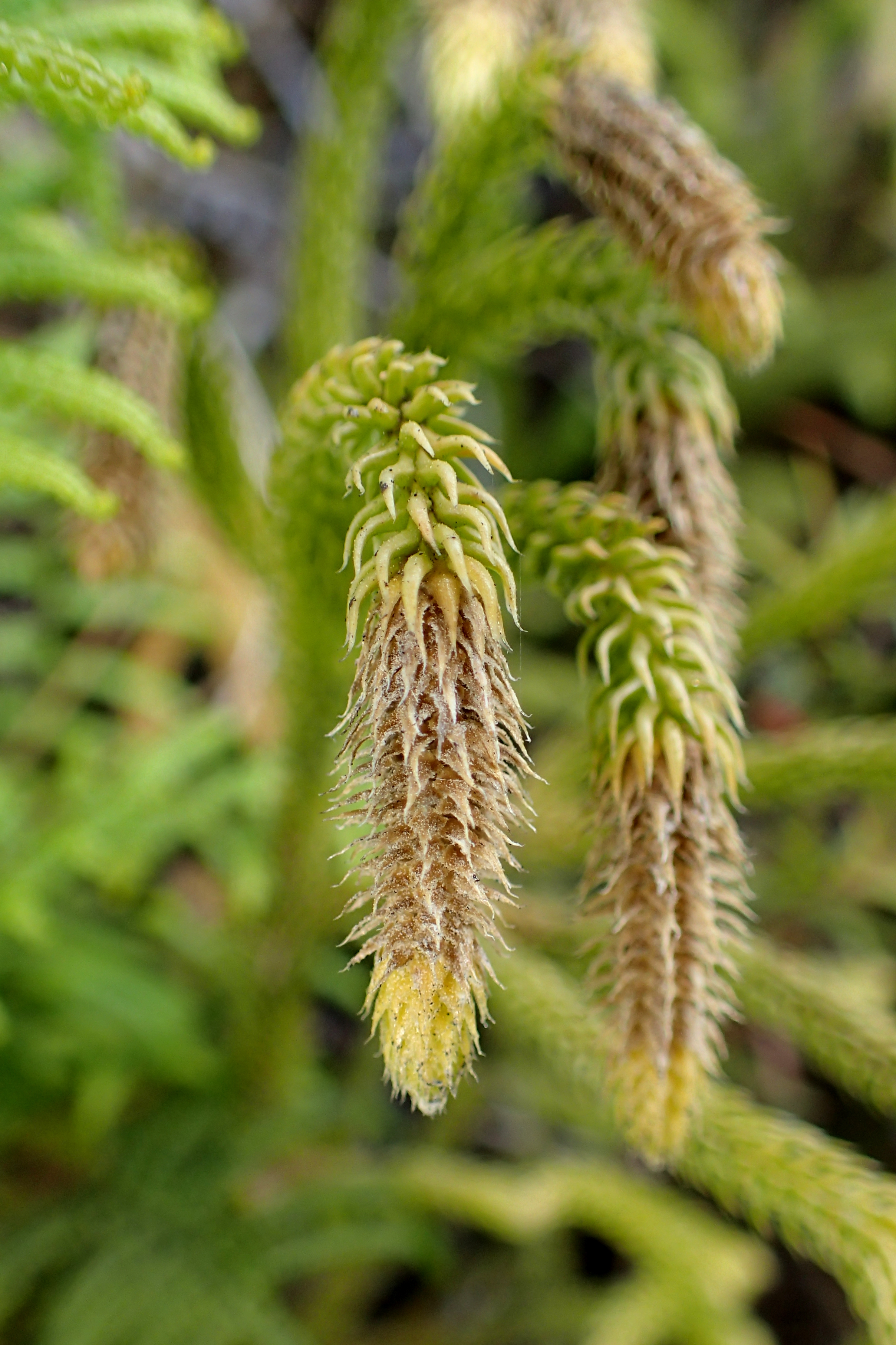 Lycopodiella cernua at Tairua Rd SE from Hikuai, Waikato (New Zealand)